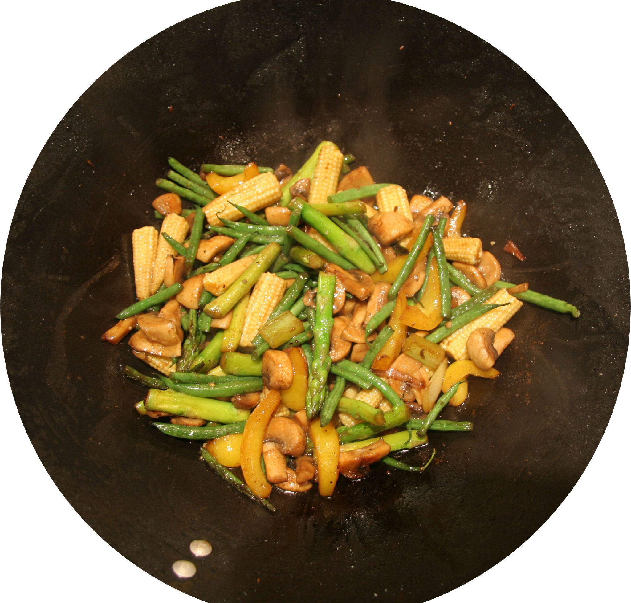 Mushrooms, celery, capsicum, beans, baby corn, asparagus, onion. Not a bit of meat in sight. Finished à la Dave (or is that au Dave?) with ground nutmeg and pepper and soy sauce. ((Uploaded to Wikipedia to showcase baby corn.))